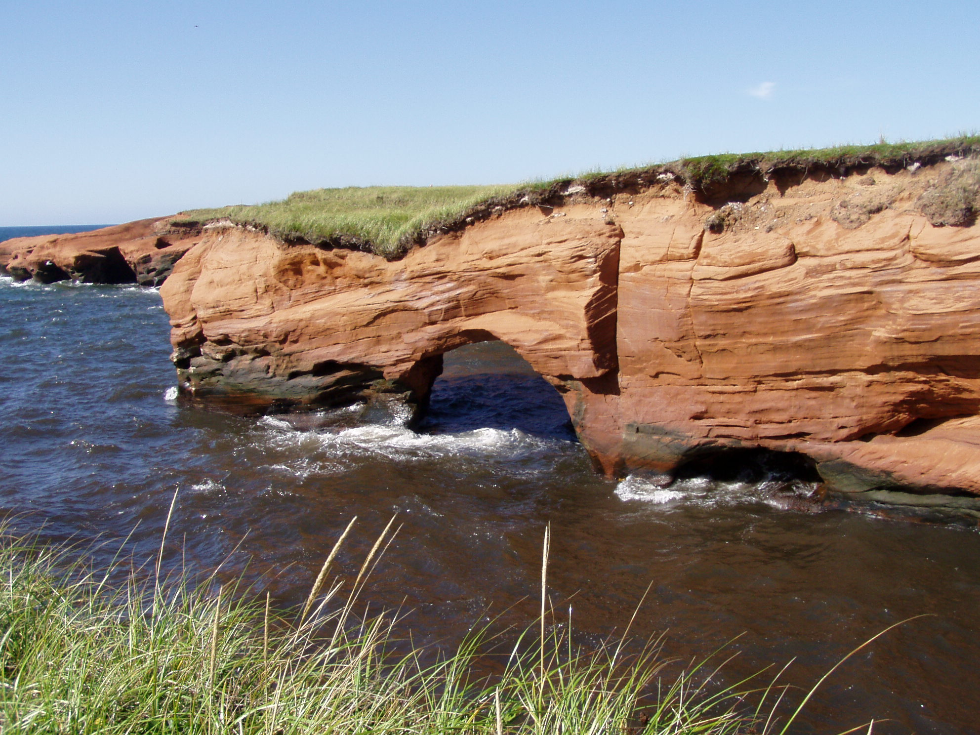 Description: Archway carved by the sea at Cap-au-Trou Location: Fatima, Cap-aux-Meules Island, Magdalen Islands, Québec, Canada Date: 2006-08-24 Source: picture taken by Danielle Langlois